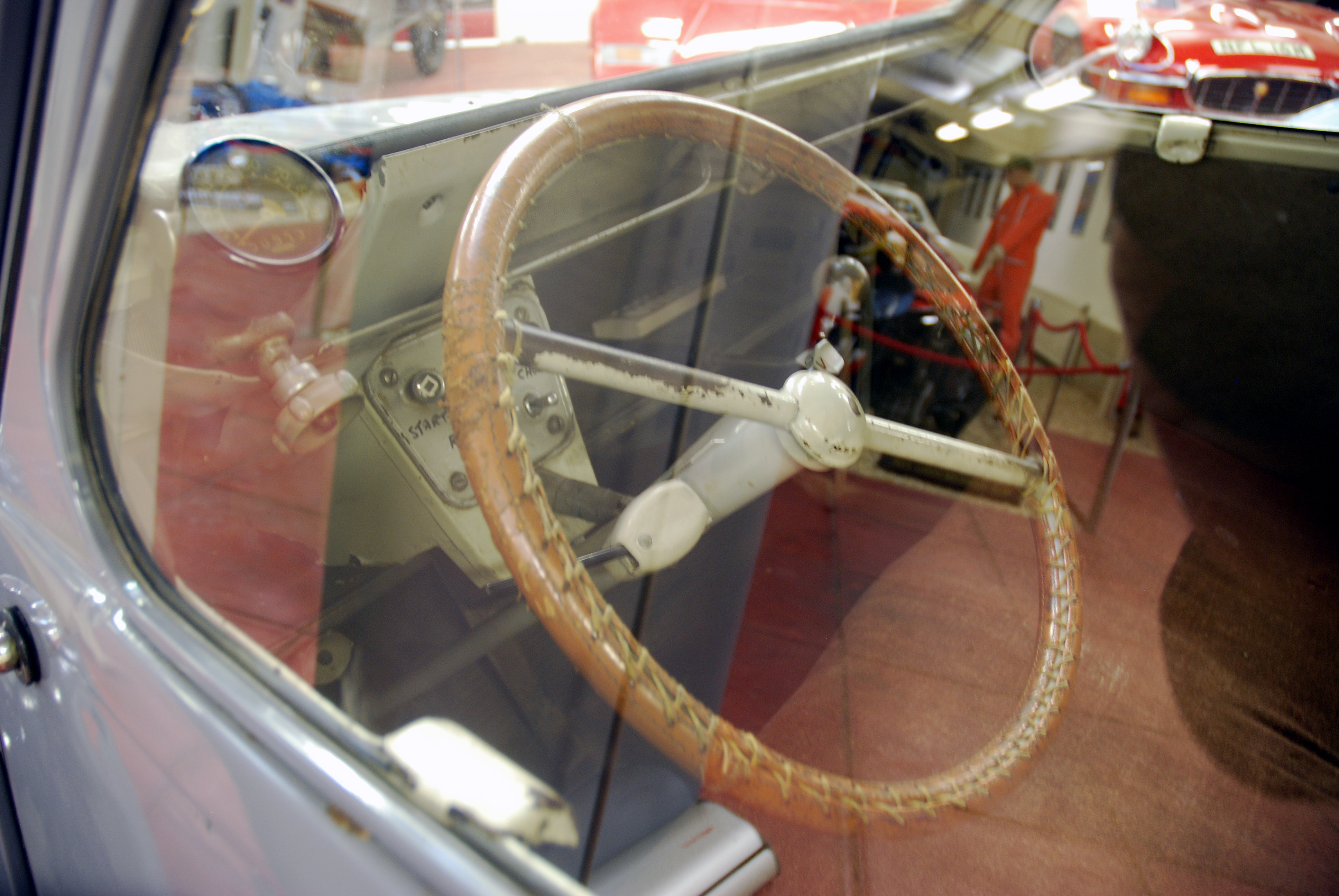 Citroen 2CV...Haynes Motor Museum,Dec 2008